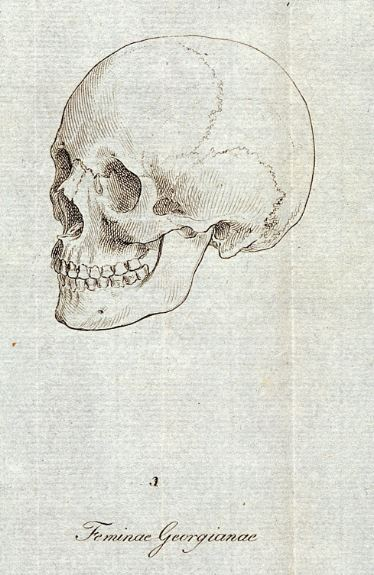 Drawing by Johann Friedrich Blumenbach of the skull of a Georgian female, used as type specimen for the "Caucasian race" in his De generis humani varietate published in 1795